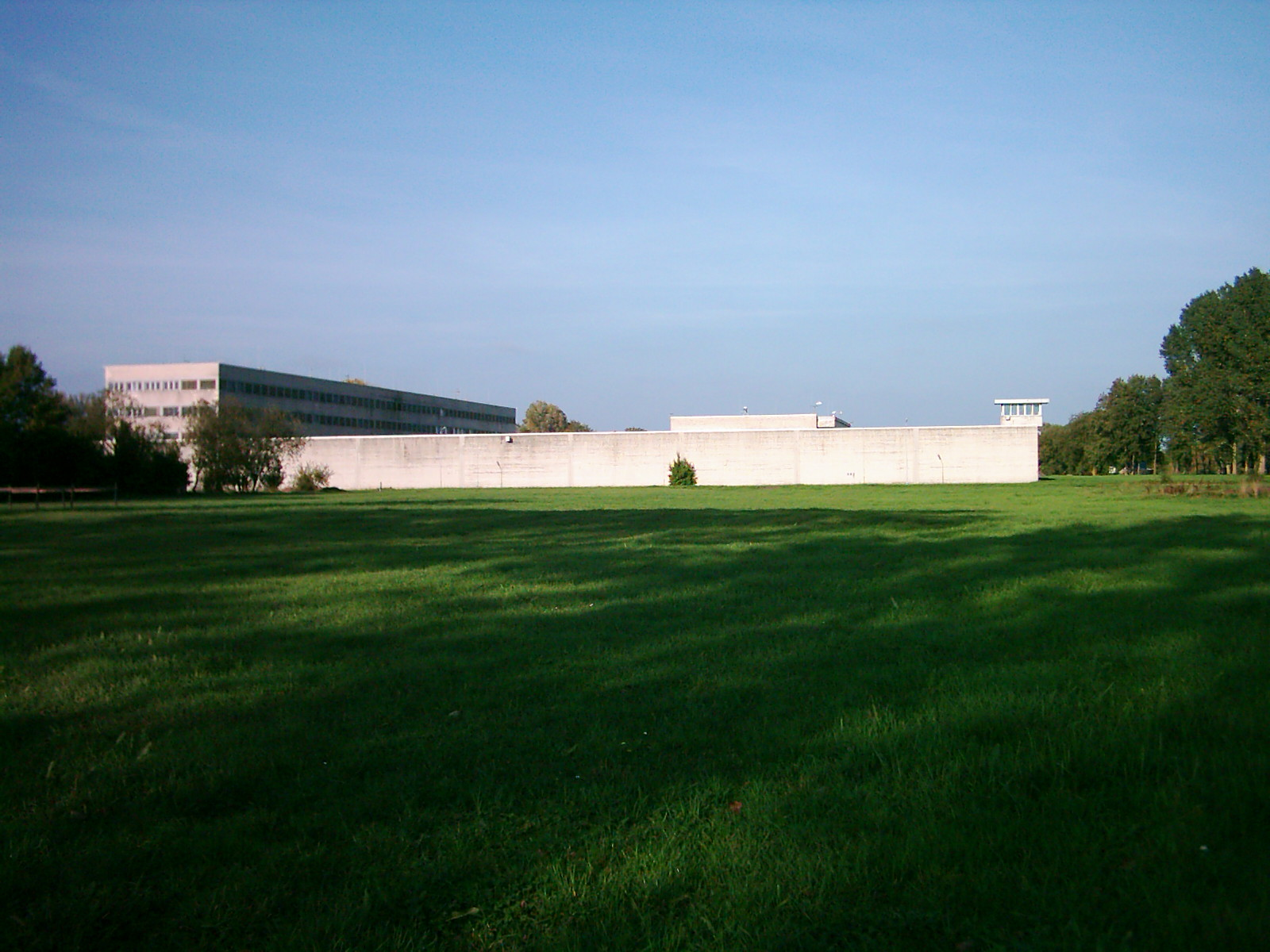 The former correctional facility in Hamburg-Neuengamme, Germany.